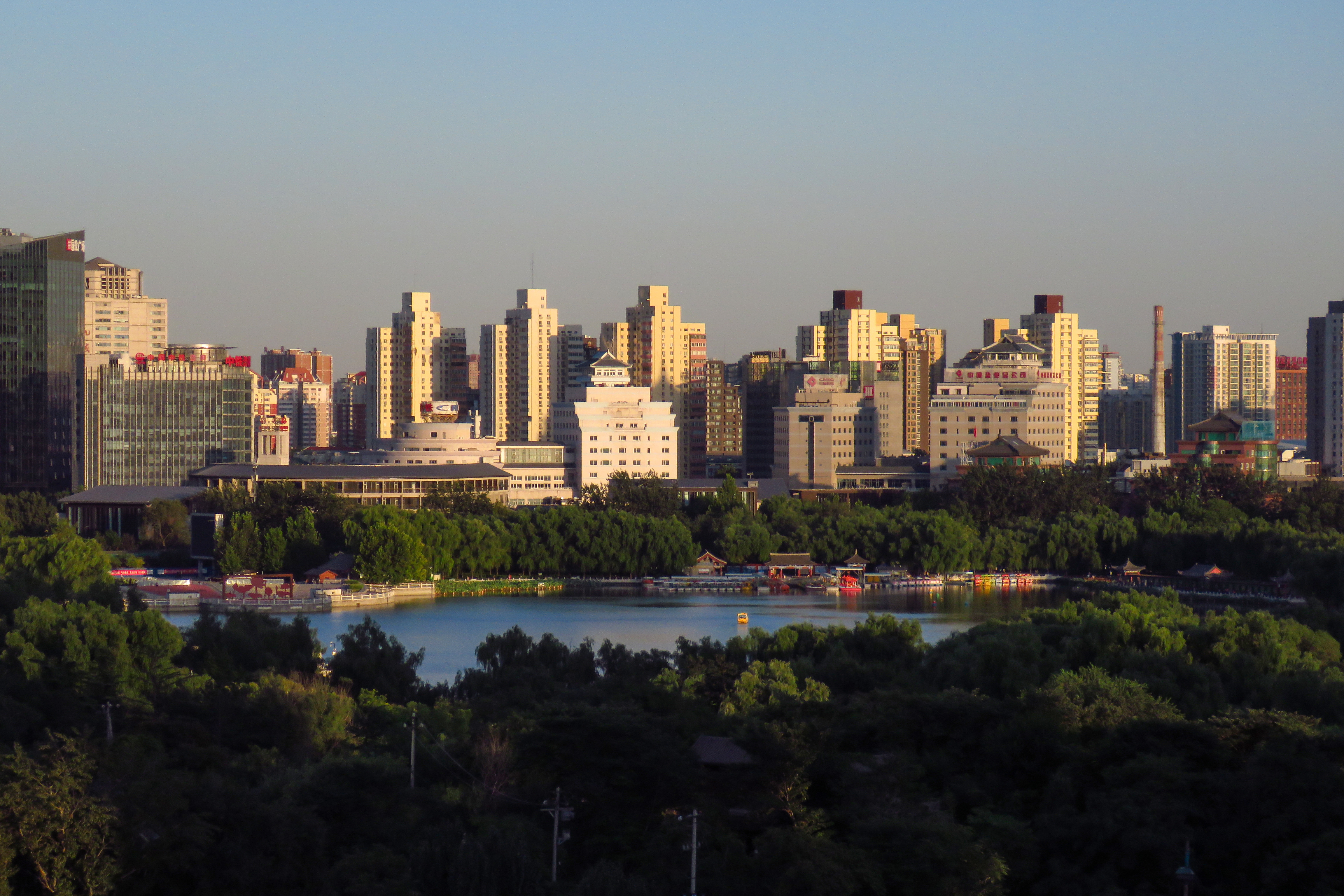 Peaceful evening would come...